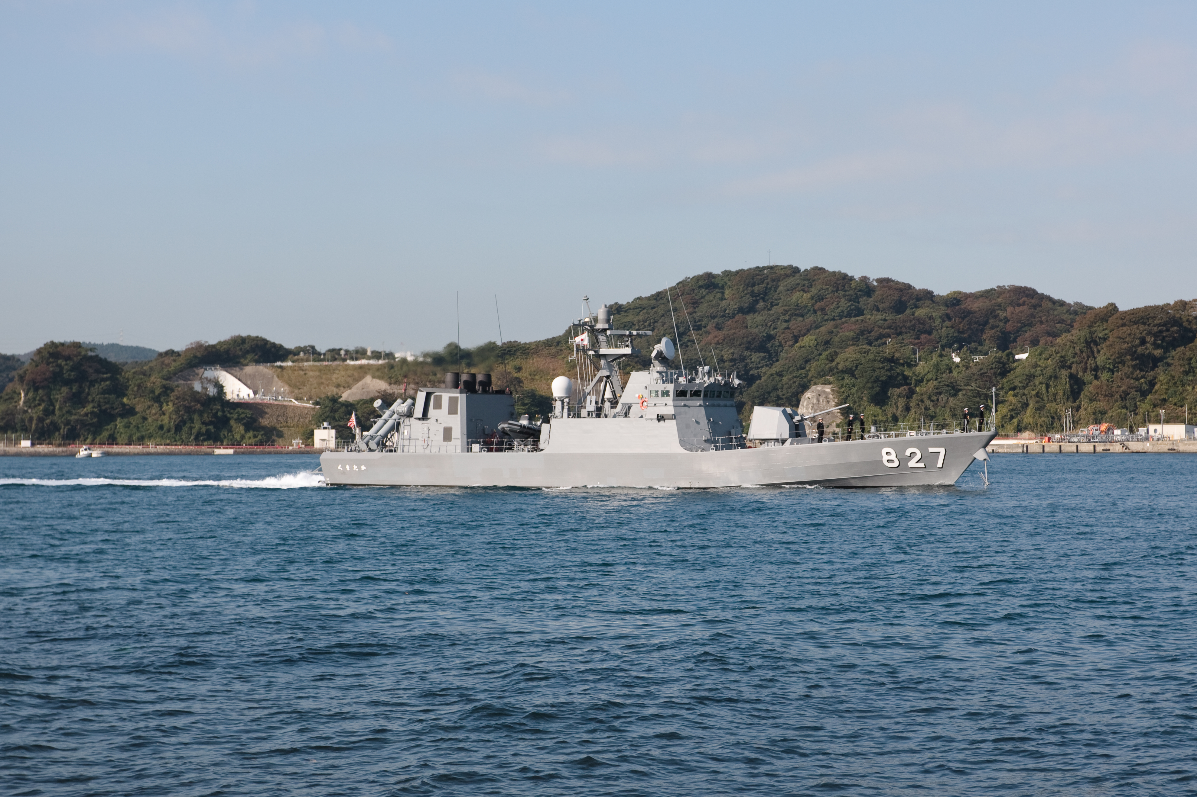 A Japan Maritime Self-Defense Force Hayabusa-class missile boat, based in Yokosuka, Japan. This work is licensed under a Creative Commons Attribution-Share Alike 3.0 United States License .